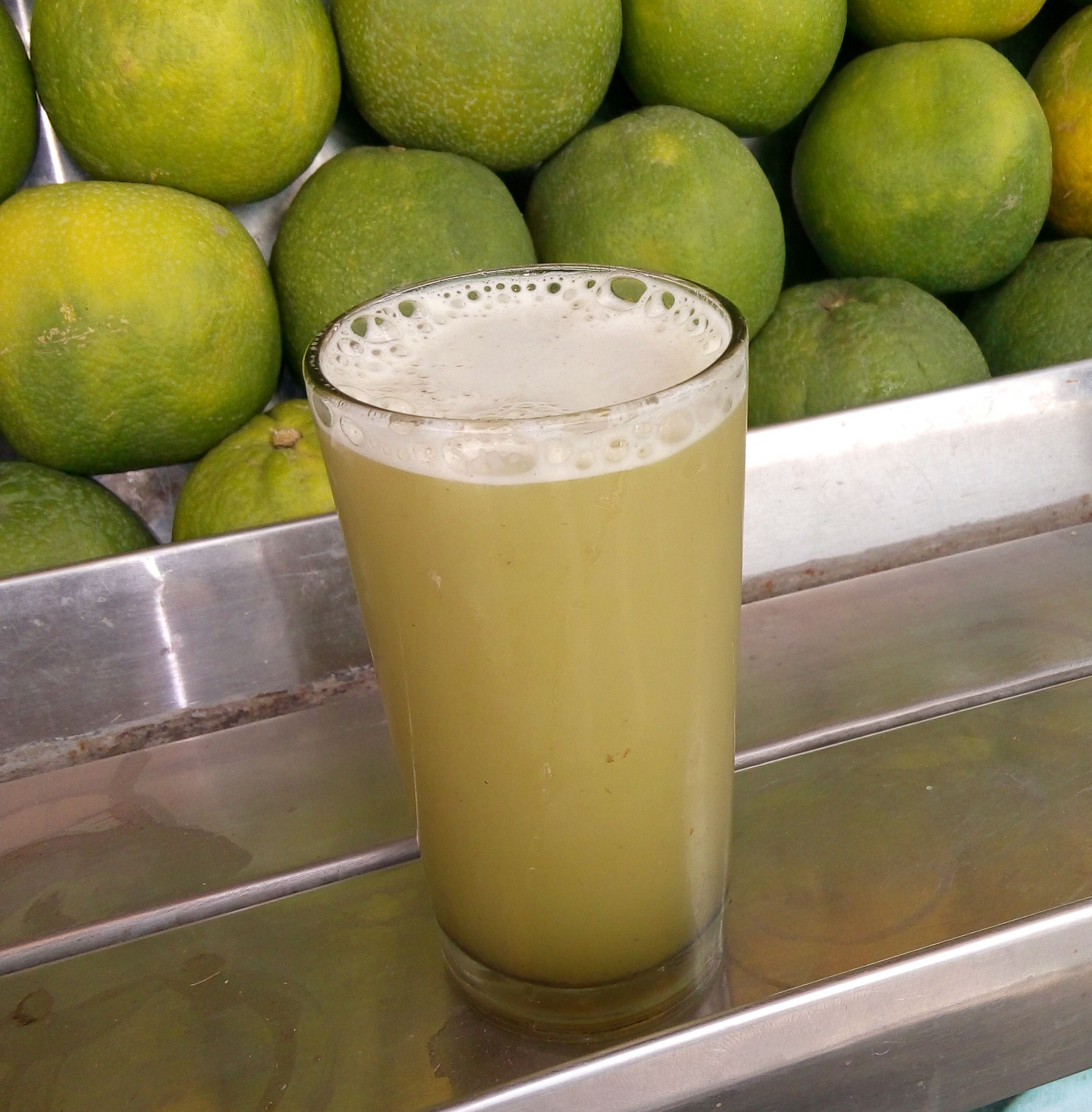 Sugarcane juice is the juice extracted from pressed sugarcane. It is served, often cold, and sometimes with other ingredients such as a squeeze of lemon or lime , pineapple , passionfruit, ginger or ice.